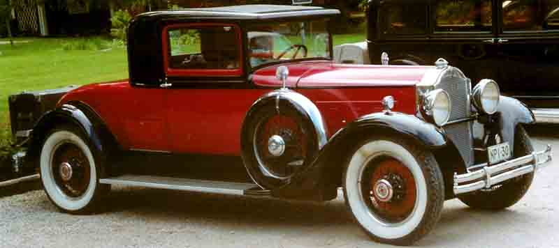 Packard Standard Eight Model 733 Coupe Style 408 1930 (Seventh Series)